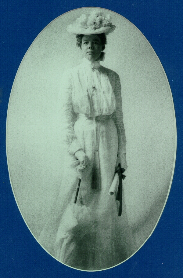 Lyda Conley, American lawyer (about 1902). "Lyda Burton Conley at her 1902 graduation from the Kansas City College of Law."[1]